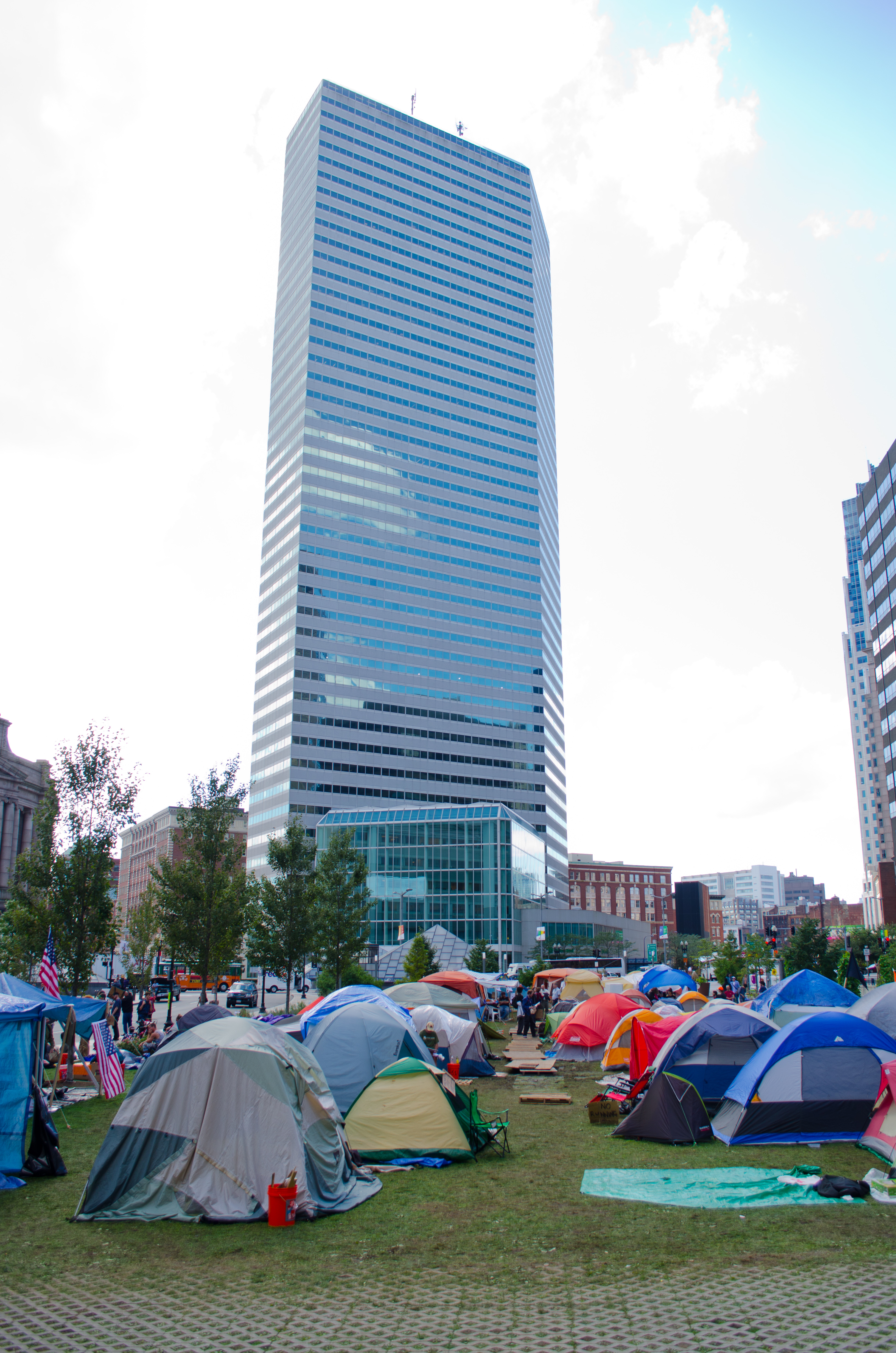 The Occupy Boston camp in Dewey Square, Boston MA.